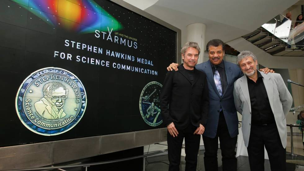 Two of the winners of the Stephen Hawking Medal for Science Communication 2017. Left to right: Jean-Michel Jarre, Neil deGrasse Tyson, Garik Israelian (director of the Starmus festival)